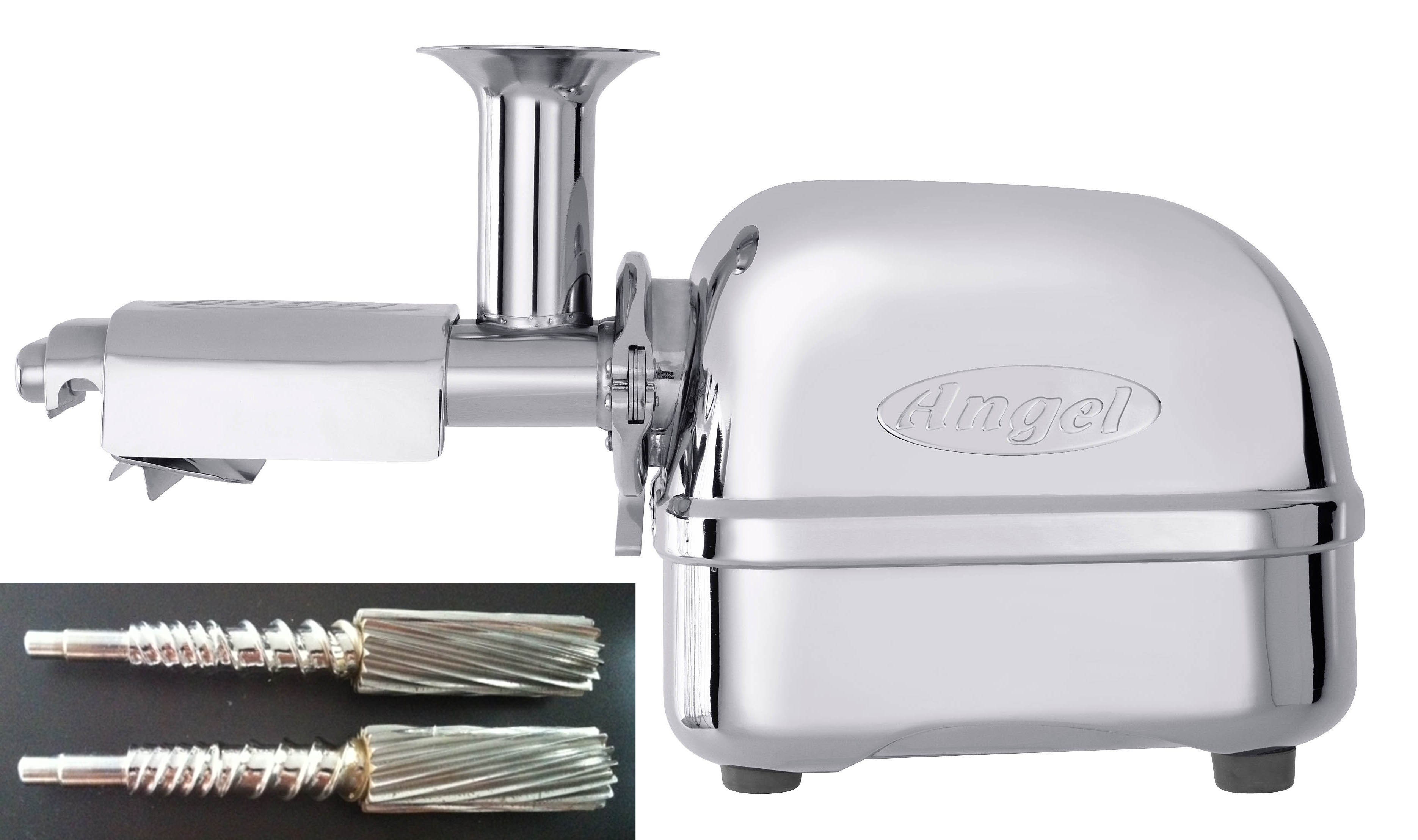 angel juicer